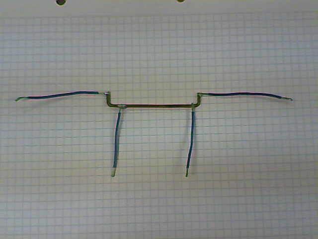 Shunt construido mediante un alambre de cobre